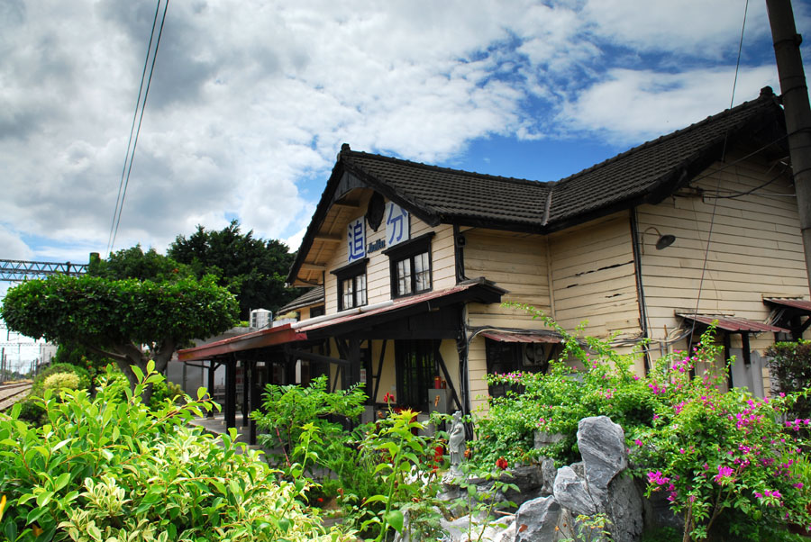 JhuiFen Station is a local train station of Taiwan's Western main rail line. It's located within the boundary of DaDu Township, TaiChung County. This photo shows the back side view taken from a small garden behind the station building.